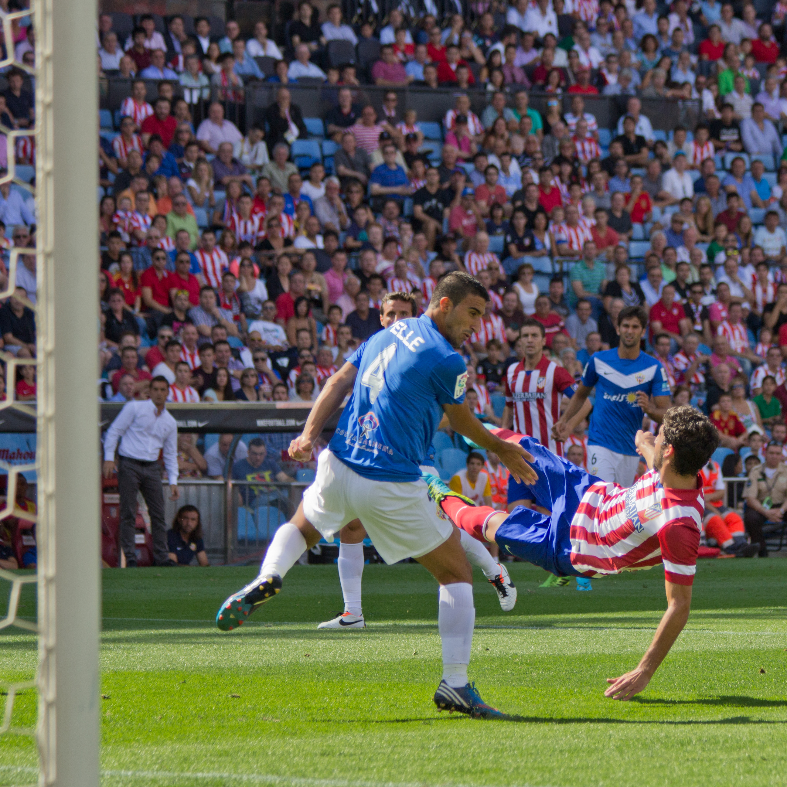 Raúl García y Hernán Pellerano at the game between Atlético de Madrid and UD Almería